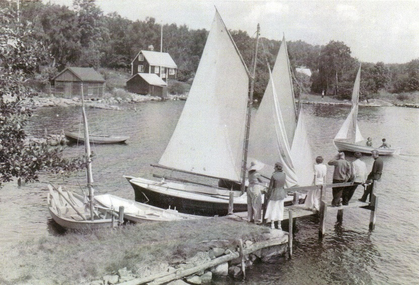 Sailers in swedish fishing village Gyön in the 1930s.